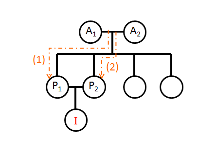 Visual aid for inbreeding coefficient (F) calculation : A = ancestors ; P = parents ; I = individual F(I) = [ ((1/2)^n) × (1/2)(1+F(A1)) ]A1 + [ ((1/2)^n) × (1/2)(1+F(A2)) ]A2